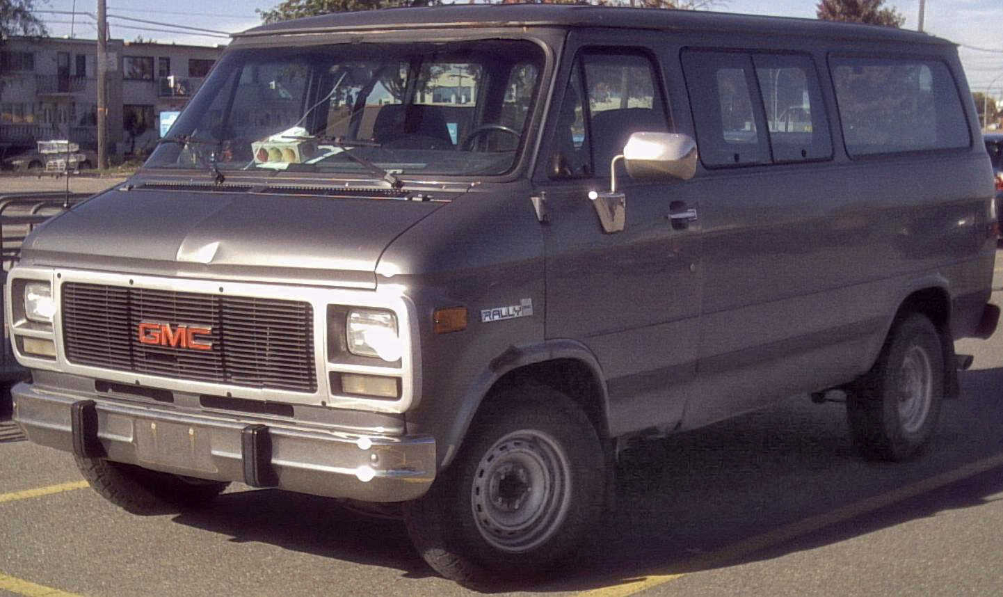 1992-1996 GMC Rally photographed in Montreal, Quebec, Canada.